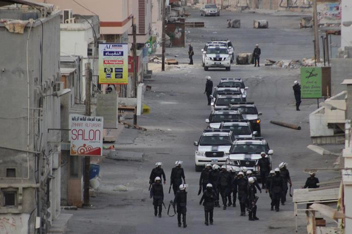 Siege of Eker: Bahraini security forces and police SUVs patrolling the besieged village of Eker, Bahrain, 20 Oct 2012